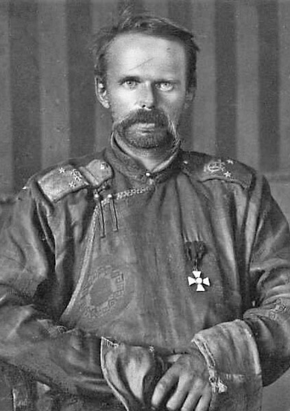 The "bloody baron" Roman Ungern von Sternberg in Mongolia around 1920.